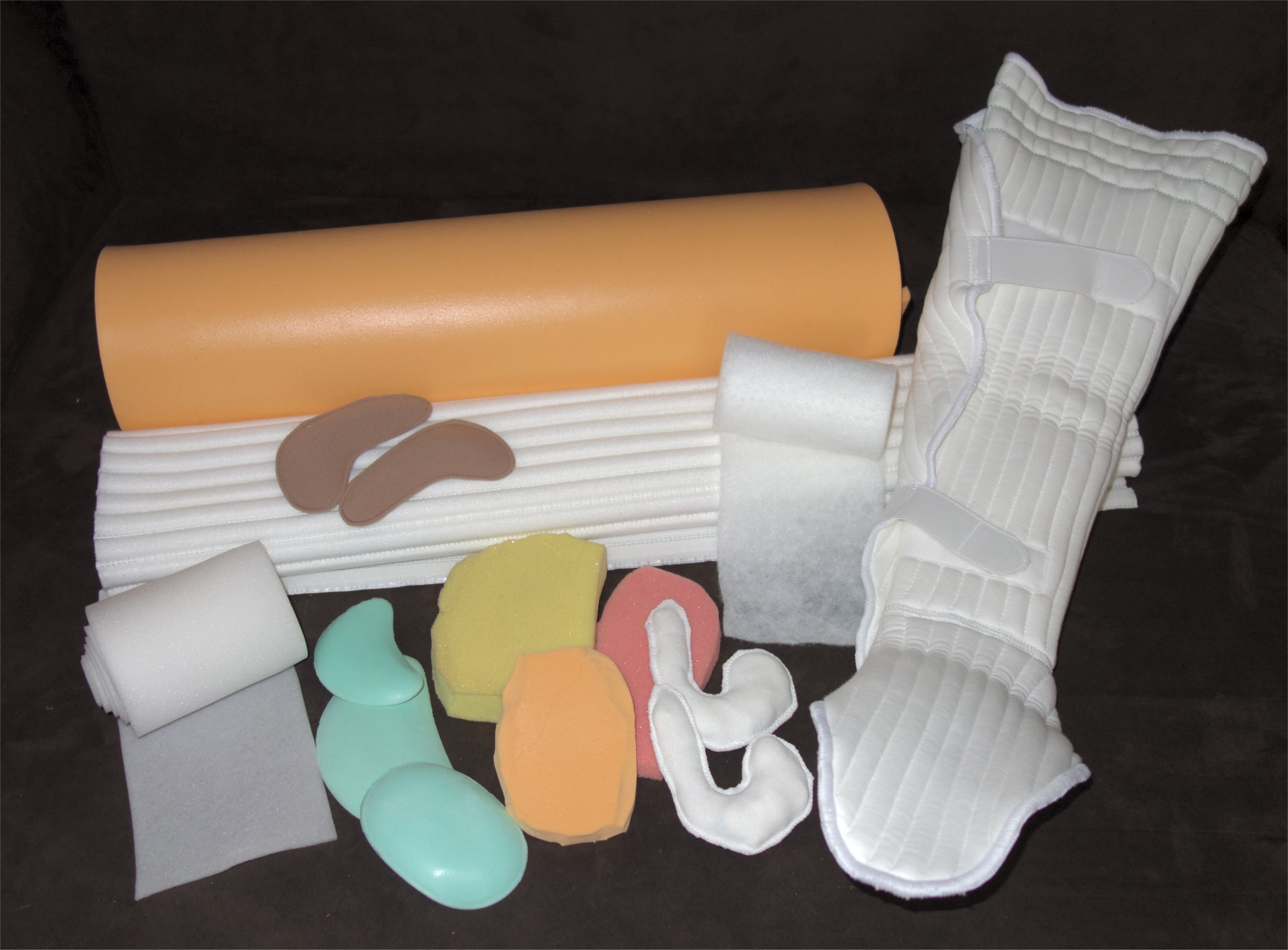 Several upholstery materials for sub-bandage usage in compression therapy.